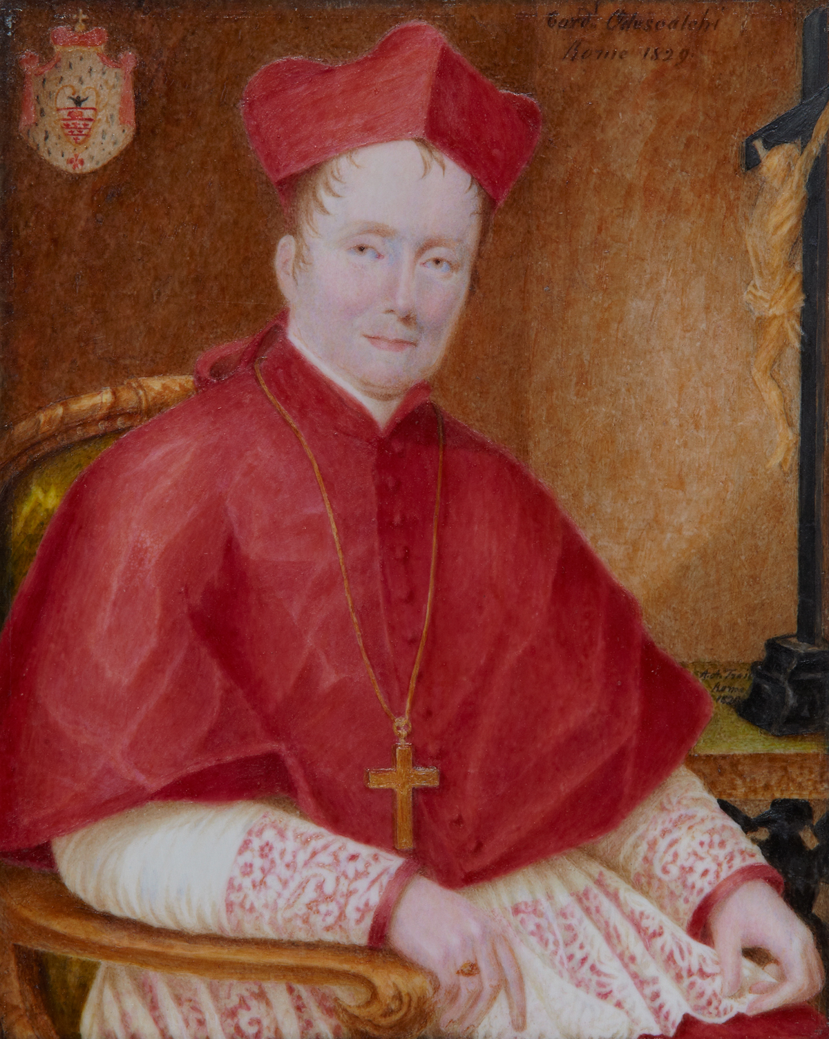 Trail, Agnes Xavier; Mrs Hutchison; Scottish Catholic Archives; by Agnes Xavier Trail an Edinburgh nun guess date of all paintings as 1850